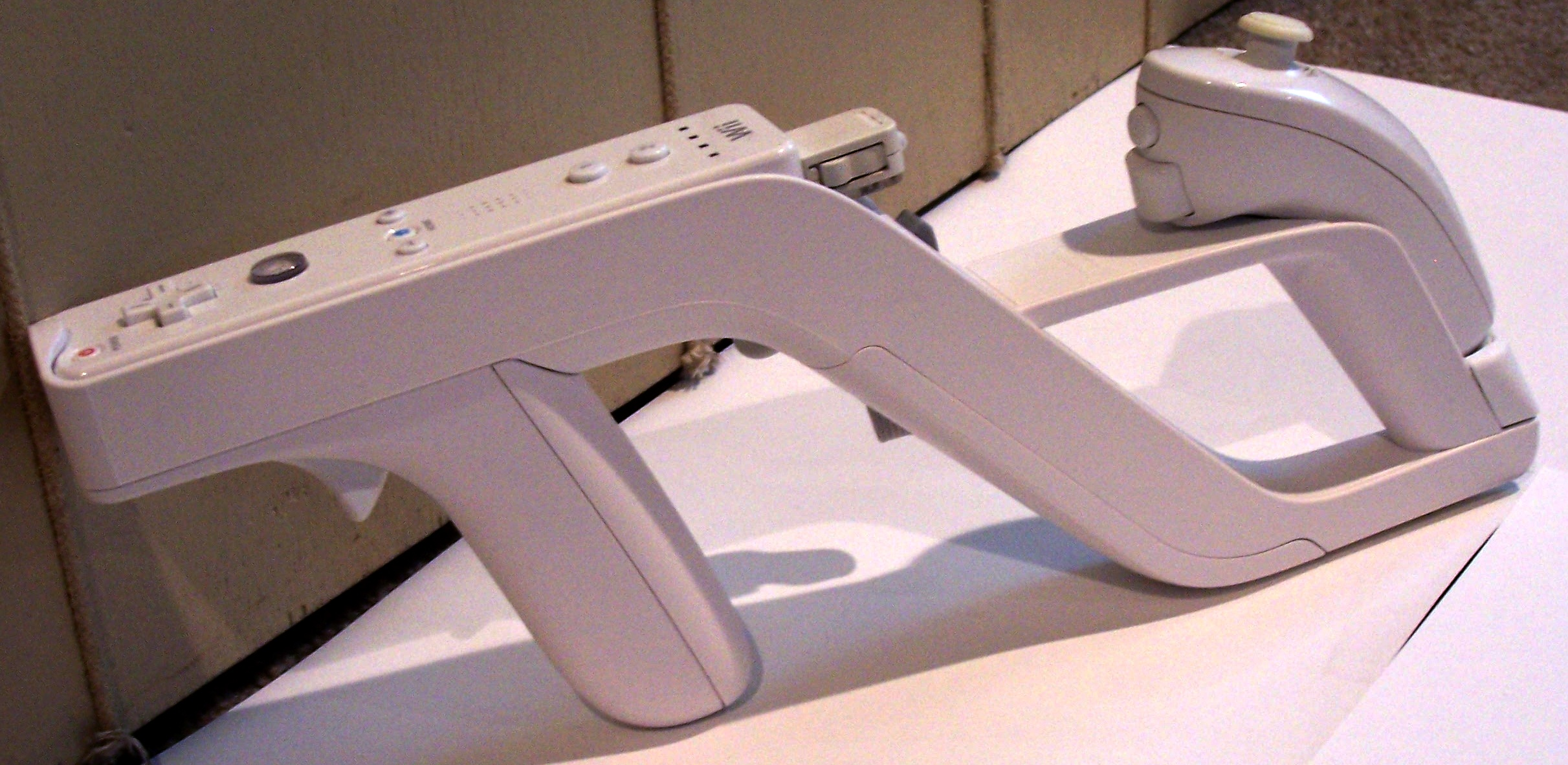 Picture of a Wii Zapper with Wii Remote and Nunchuck